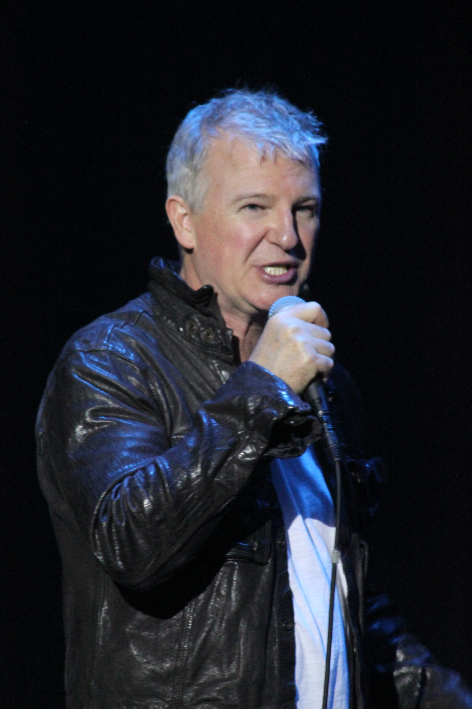 Glass Tiger frontman Alan Frew.